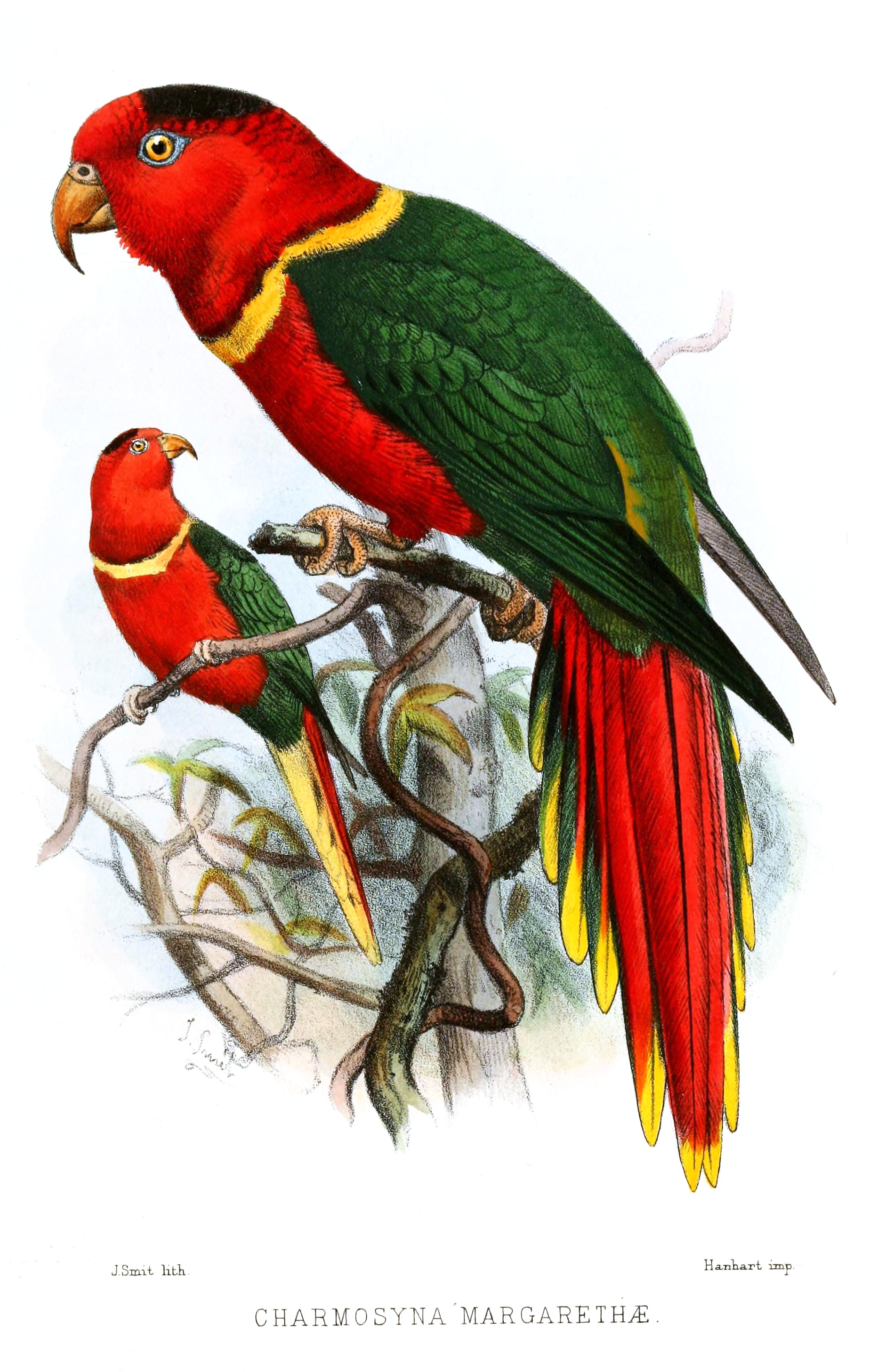 « Charmosyna margarethae » = Charmosyna margarethae (Duchess Lorikeet)